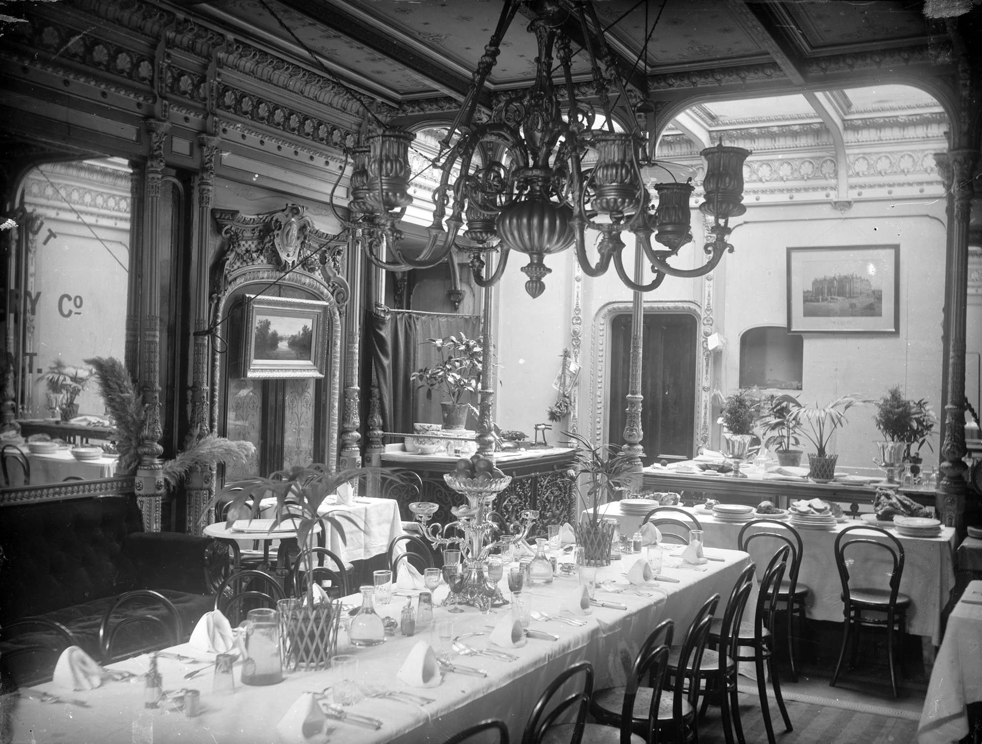 Thought that after our couple of "shippy" days, it'd be interesting to see what was available to passengers below decks on snazzy (technical term) vessels like the Brunel-designed S.S. Great Eastern, berthed in this photo at the North Wall in Dublin. Thanks to all for great research on this one, and to nintytwo for helping us uncover that this was taken at the North Wall in Dublin, and that our catalogue was incorrect in saying this had been taken at Arklow, Co. Wicklow. Date: Between 15 October 1886 and 3 April 1887 NLI Ref.: L_ROY_00429